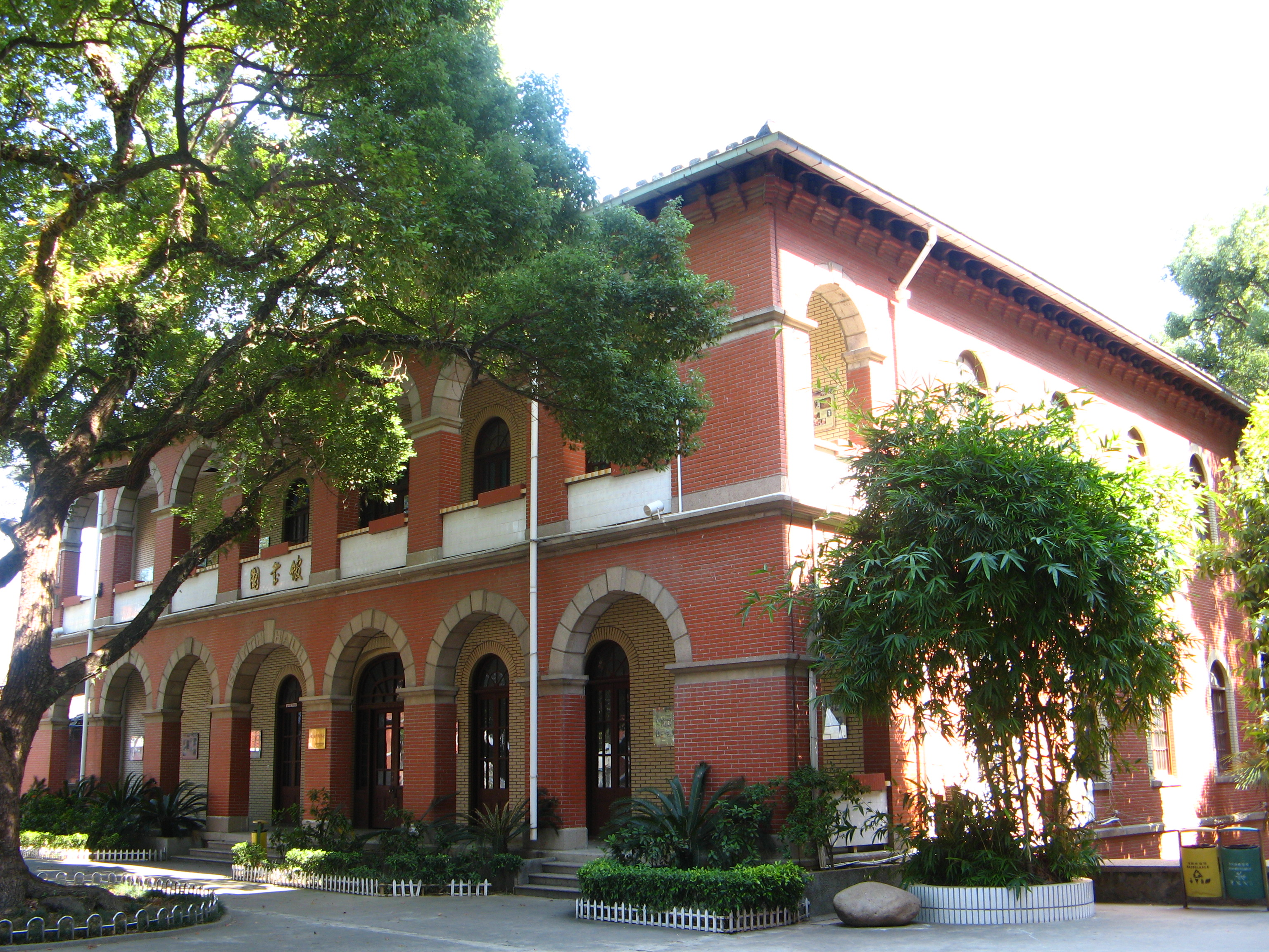 Smyth Hall, now the library of Fuzhou Senior High School